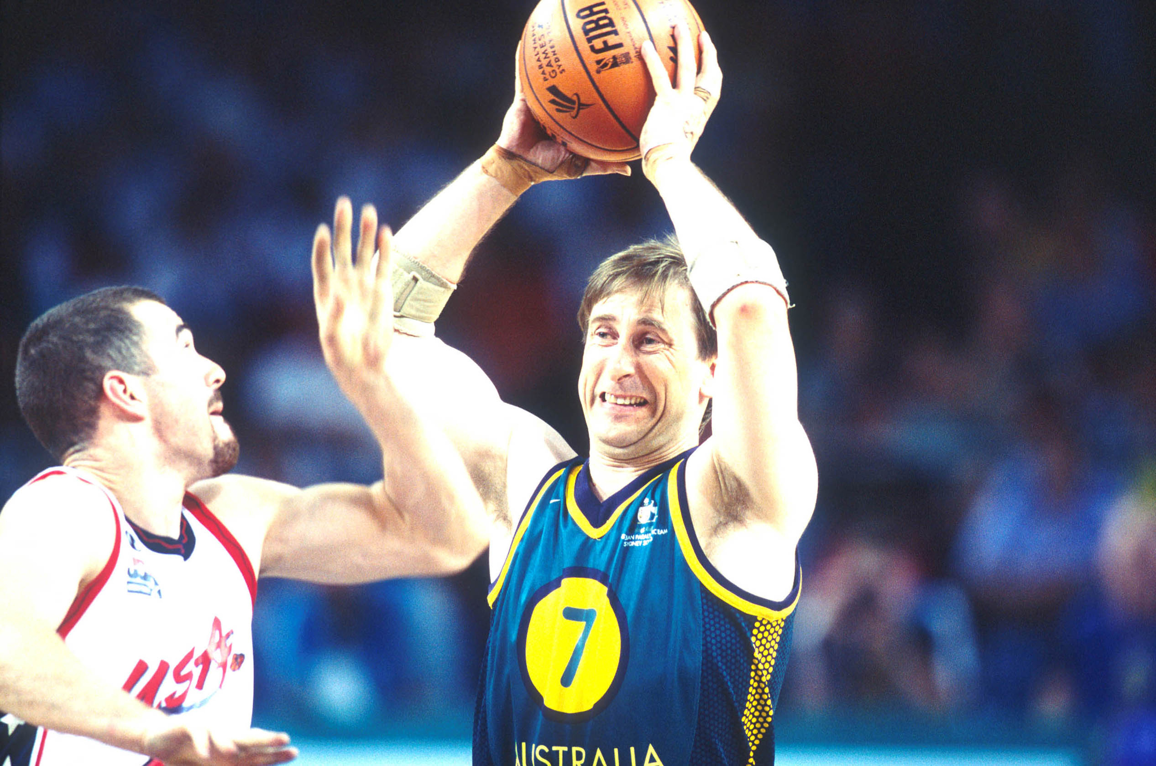 Australian wheelchair basketballer Sandy Blythe during 2000 Sydney Paralympic Games match